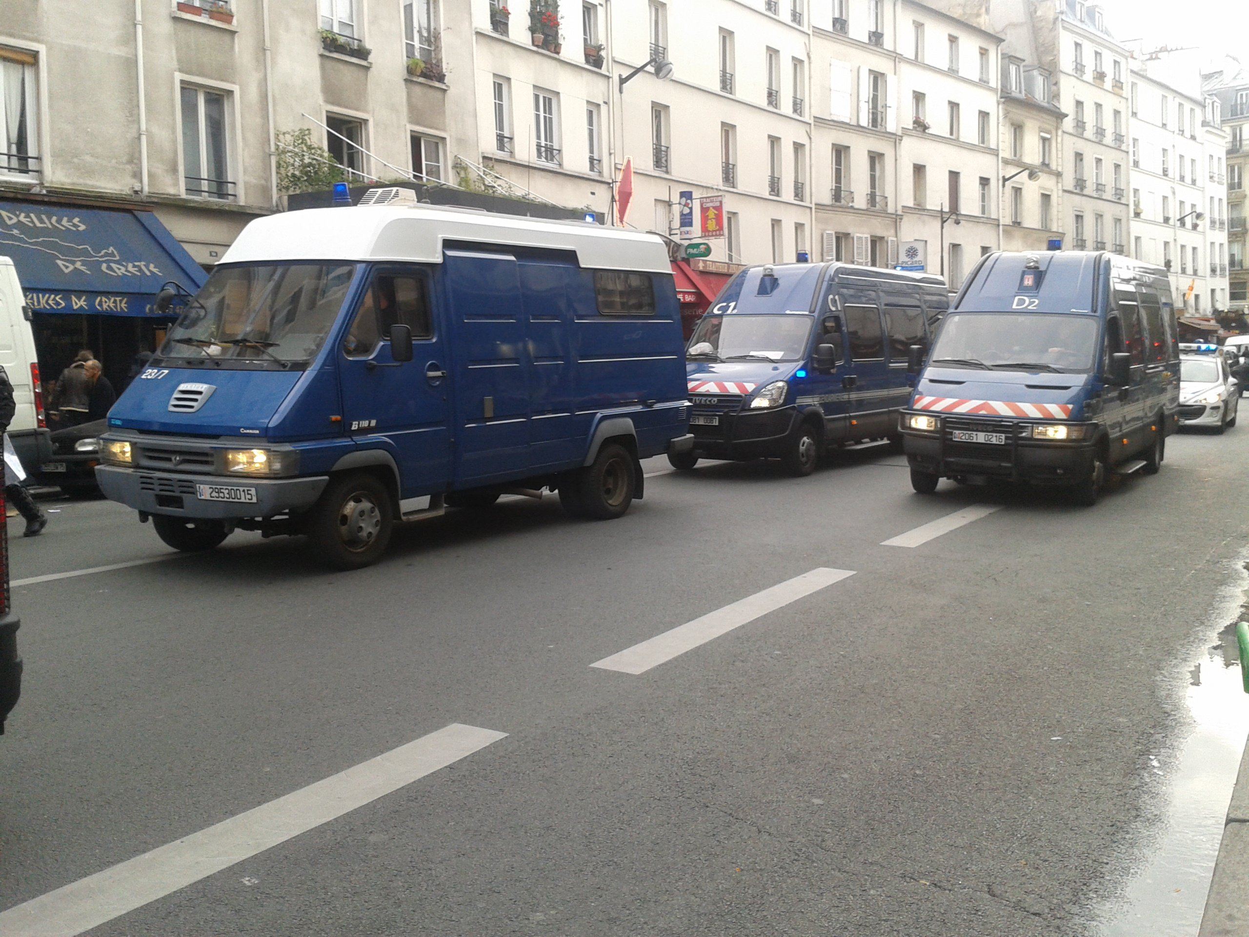 French gendarmerie mobile vehicles. Paris 2013